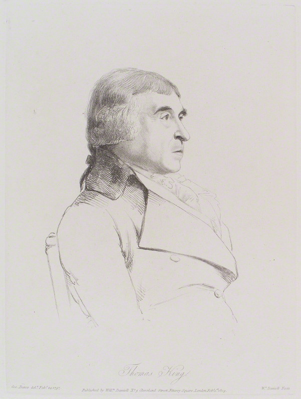 Portrait of Thomas King (1730–1805), English actor.